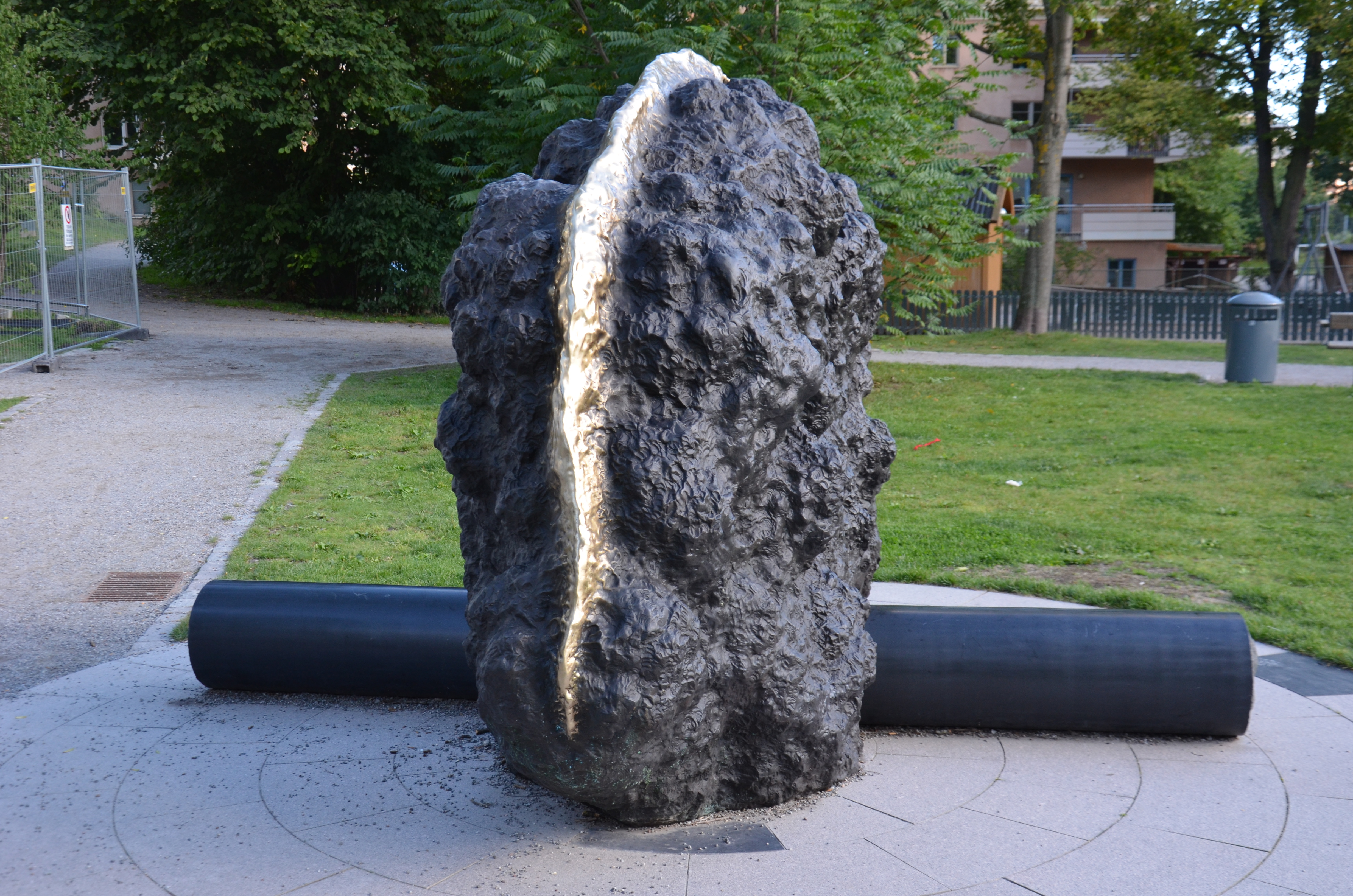 Den andre av Lone Larsen i Sabbatsbergsområdet i Stockholm